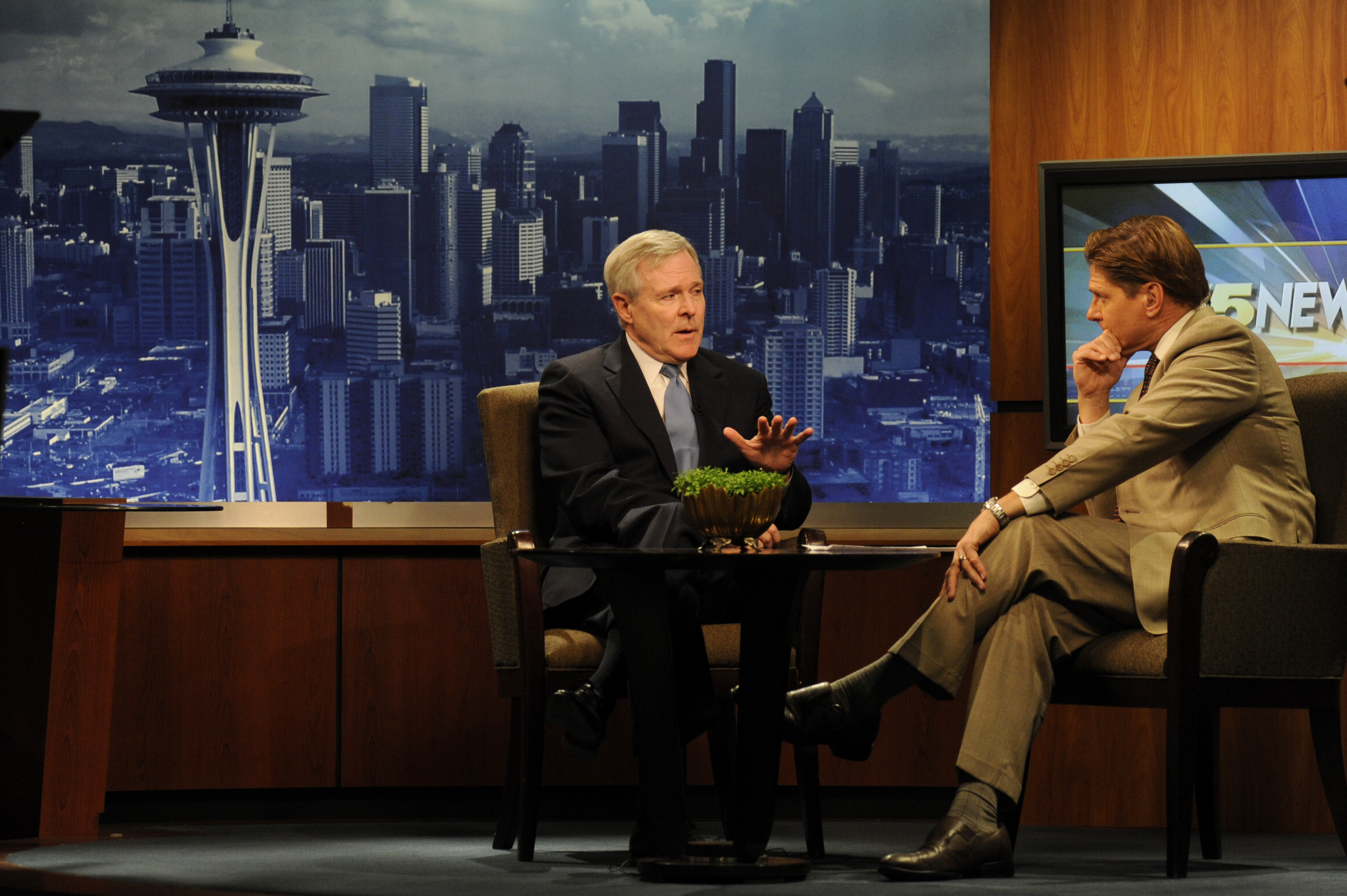 Secretary of the Navy Ray Mabus answers questions about the current status of the Navy and Marine Corps during an interview on KING 5 Morning News in Seattle, Wash., April 14, 2010.